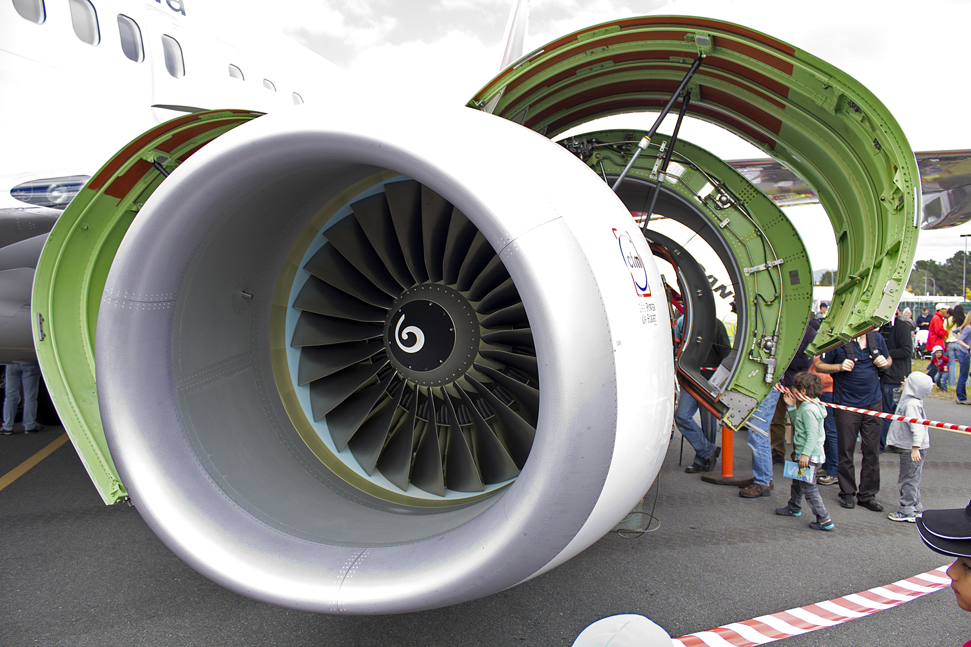 CFM International CFM56-7B26 fitted to Qantas (VH-VZY) Boeing 737-838 (WL) at the Canberra International Airport open day.